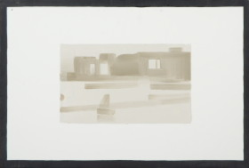 "Obraz matki Whistlera" by Rafał Bujnowski, from the permanent collection of Zachęta National Gallery of Art (Warsaw, Poland)